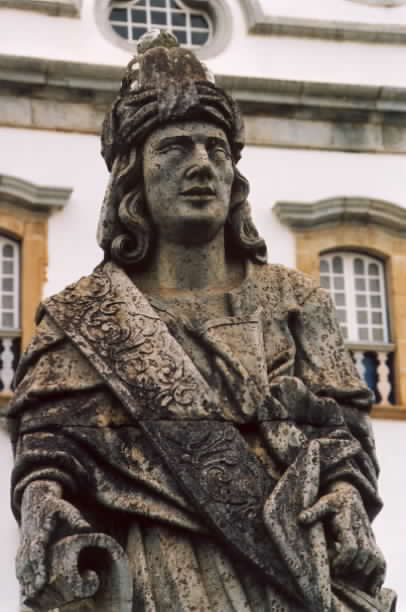 By Aleijadinho